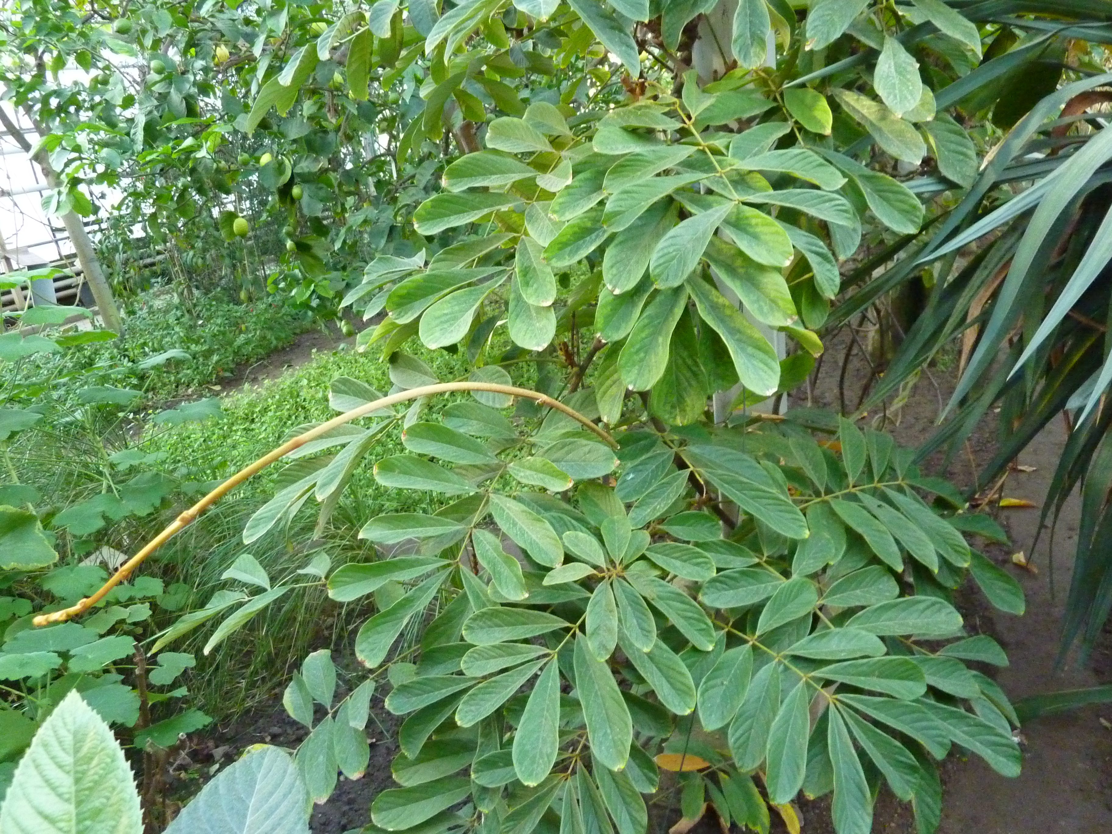 Derris elliptica growing in the greenhouse of the Deutsches Institut für tropische und subtropische Landwirtschaft, Witzenhausen, Germany